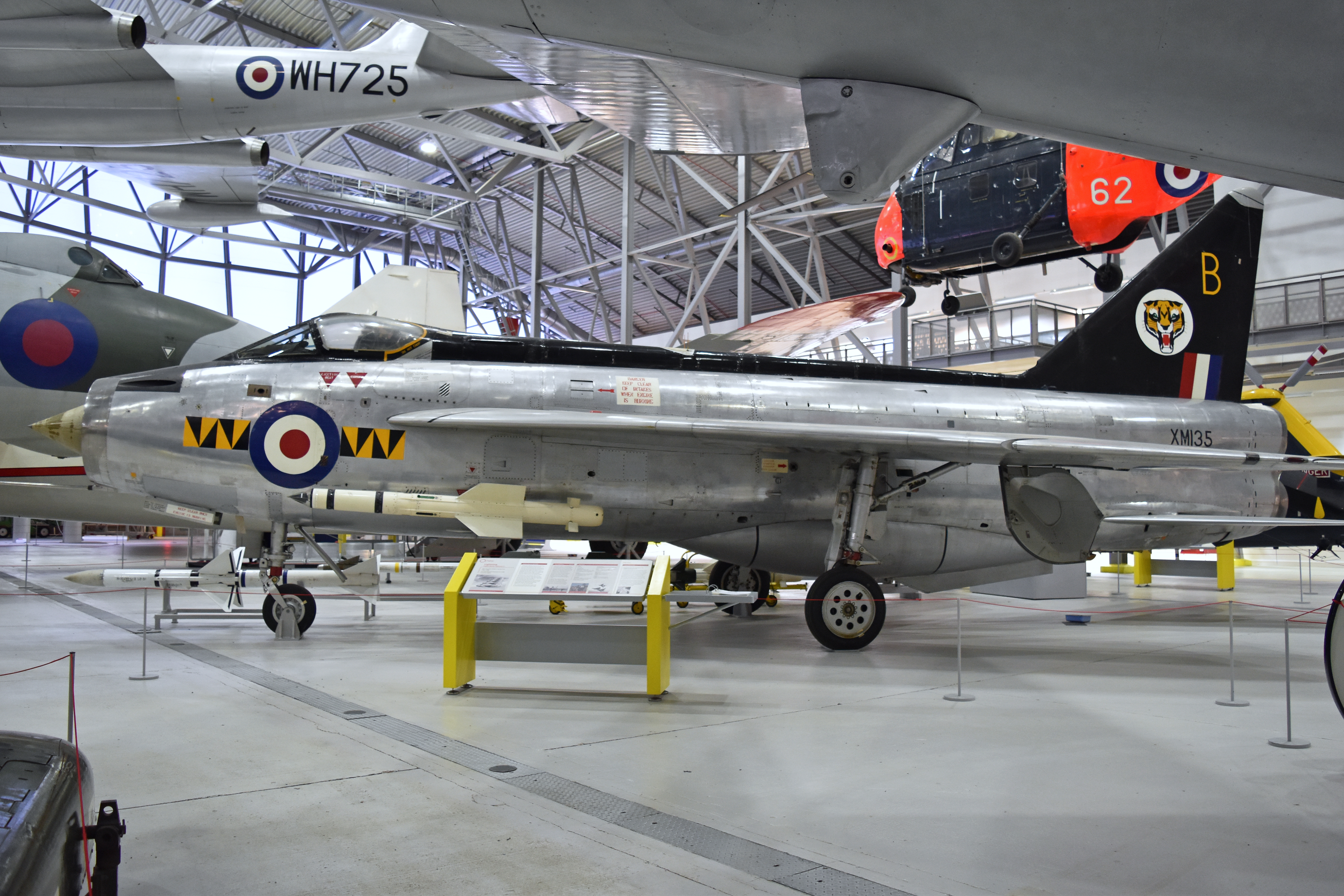 c/n 95031. Built 1959, first flight 14th November 1959, delivered 25th May 1960. Retired and delivered to Duxford on 20th November 1974. Returned to her genuine 74sqn markings, she is on display in the ‘AirSpace’ hangar at the Imperial War Museum, Duxford Airfield, Cambridgeshire, UK. 26th January 2018 The following history for XM135 comes from the IWM website:- “This aircraft, XM135, was the second production Lightning. It served with the Air Fighting Development Unit at RAF Coltishall, Norfolk, for three years. It then joined No. 74 Squadron, and served until 1964 as part of the Fighter Command Aerobatic Team. After a period of storage and maintenance it joined the RAF Leuchars Target Facilities Flight in Fifeshire. The aircraft joined No. 60 Maintenance Unit in 1971, and was acquired by the Imperial War Museum in 1974. In 1966, an RAF engineer, Wing Commander ‘Taff’ Holden, accidentally flew the aircraft. While carrying out a ground test, he inadvertently activated the aircraft’s afterburners, and was forced to take off. He was able to land it safely. '‘I needed to do one more test. On opening the throttles for that final test, I obviously pushed them too far, misinterpreting the thrust…and they got locked into reheat… I had gained flying speed…and I had no runway left. I did not need to heave it off the runway, the previous test pilot had trimmed it exactly for take-off and with only a slight backward touch of the stick I was gathering height and speed… Once airborne, with adrenaline running rather high, I found myself in a rather unenviable position. No canopy, no radio, an unusable ejector seat, no jet flying experience, Comets and Britannias somewhere around me and speed building up…”